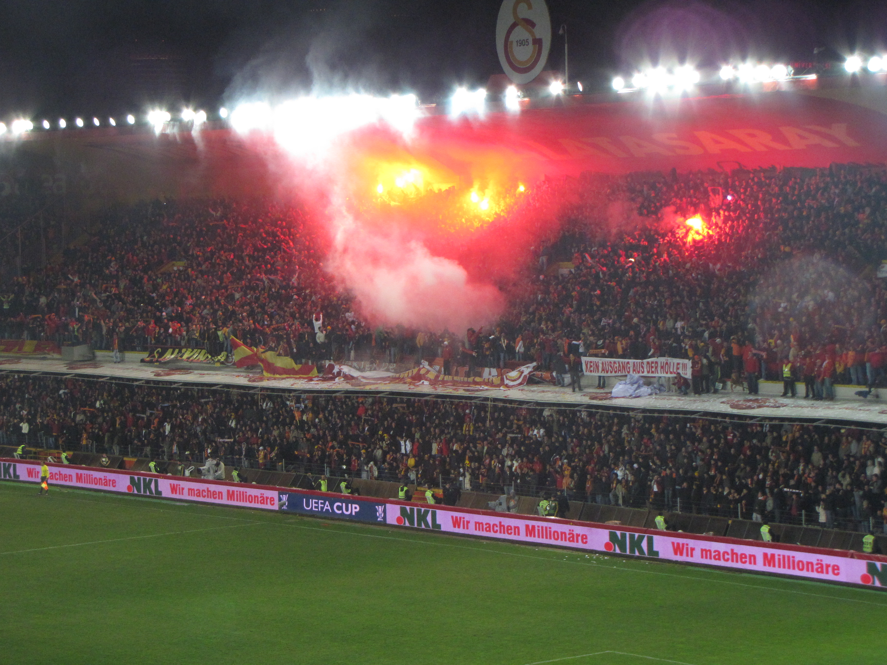 galatasaray-hamburger SV 2009 UEFA football match